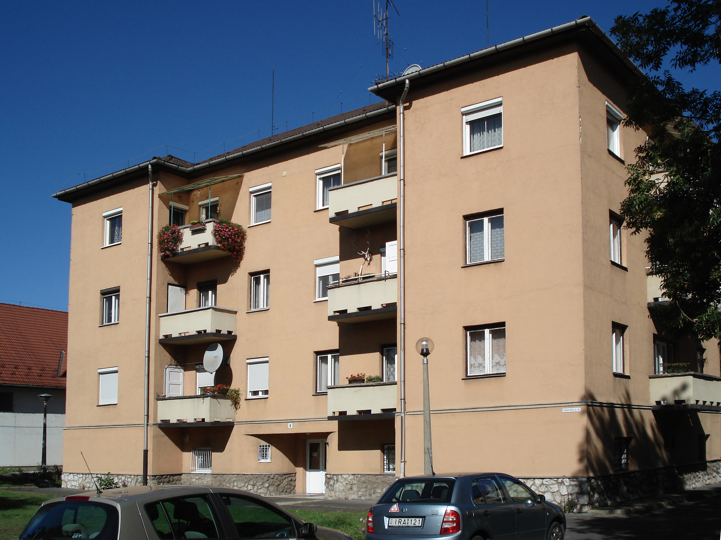 House for factory clerks, 8 Vasgyári road, Miskolc, Diósgyőr-Vasgyár, Hungary